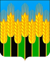 Coats of arms of Novodmítriyevskaya, Severskaya Raion, Krasnodar krai, Russia.